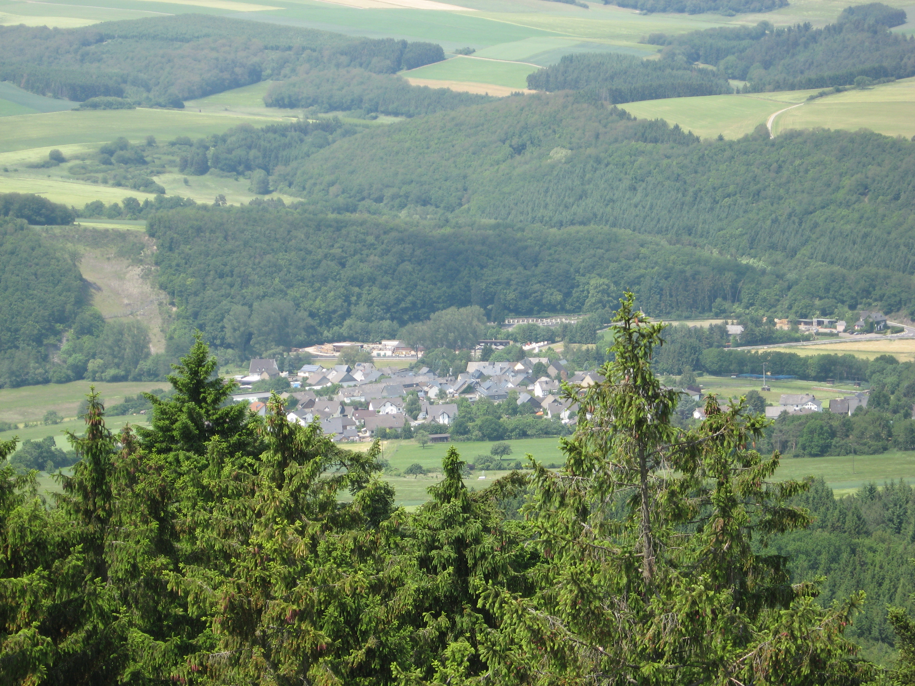 Village Gehlweiler in the Hunsrück landscape, Germany.